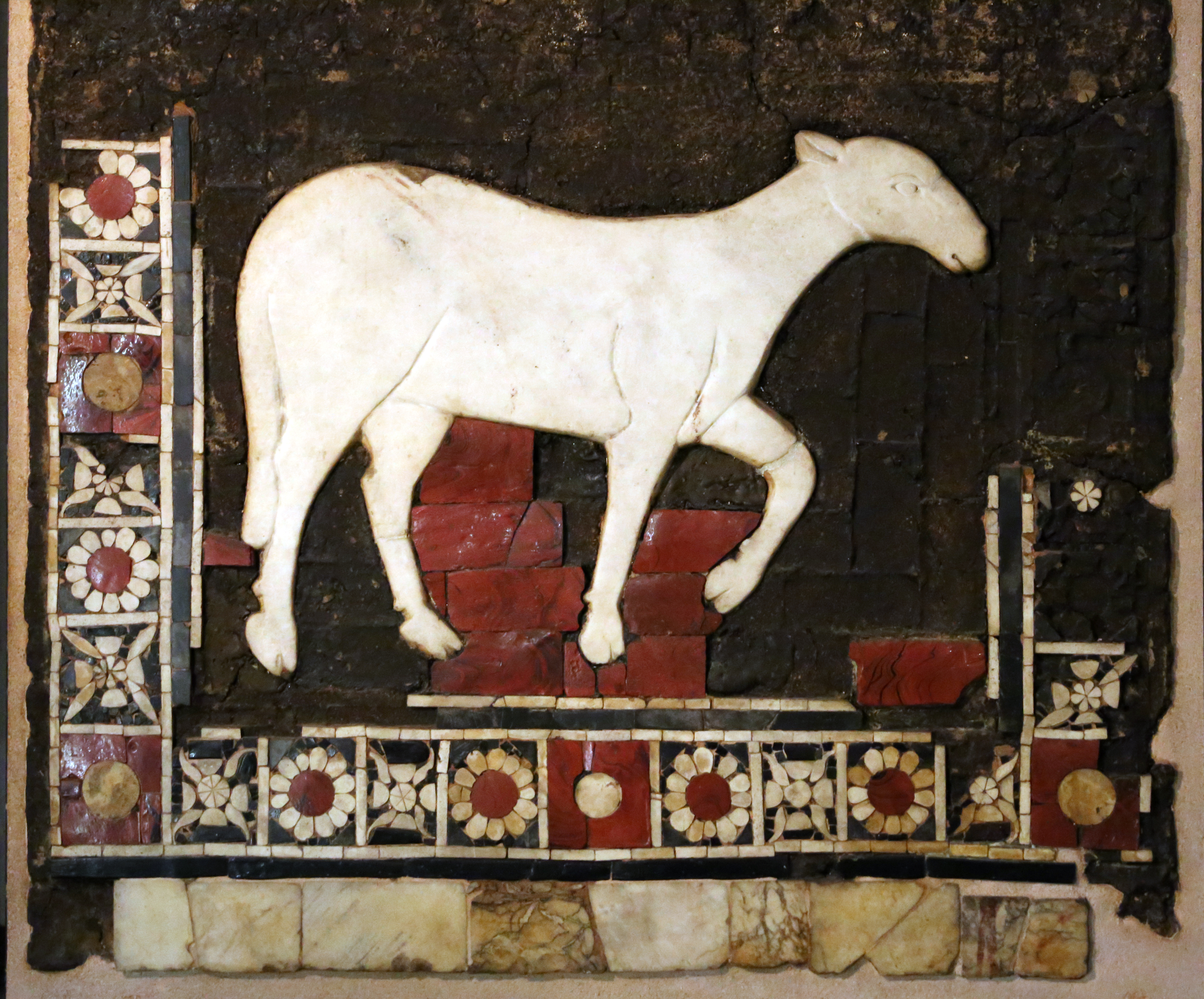 Sant'Ambrogio (Milan) - Tesoro